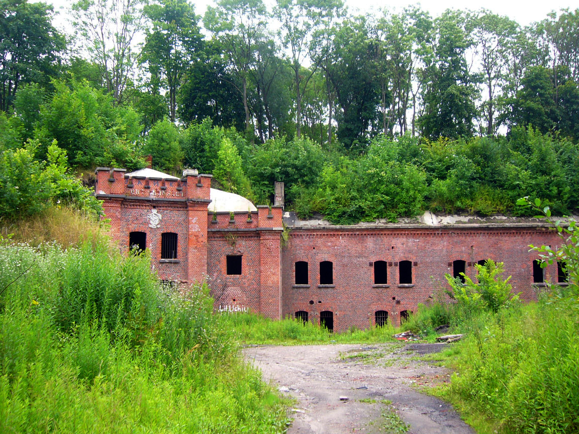 Fort II (Bronsart bei Mandein) in Kaliningrad oblast